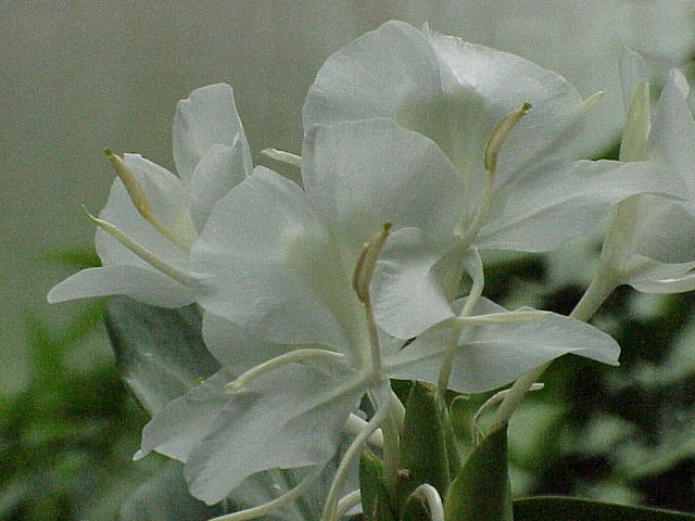 Species: Hedychium coronarium Family: Zingiberaceae Image No. 1